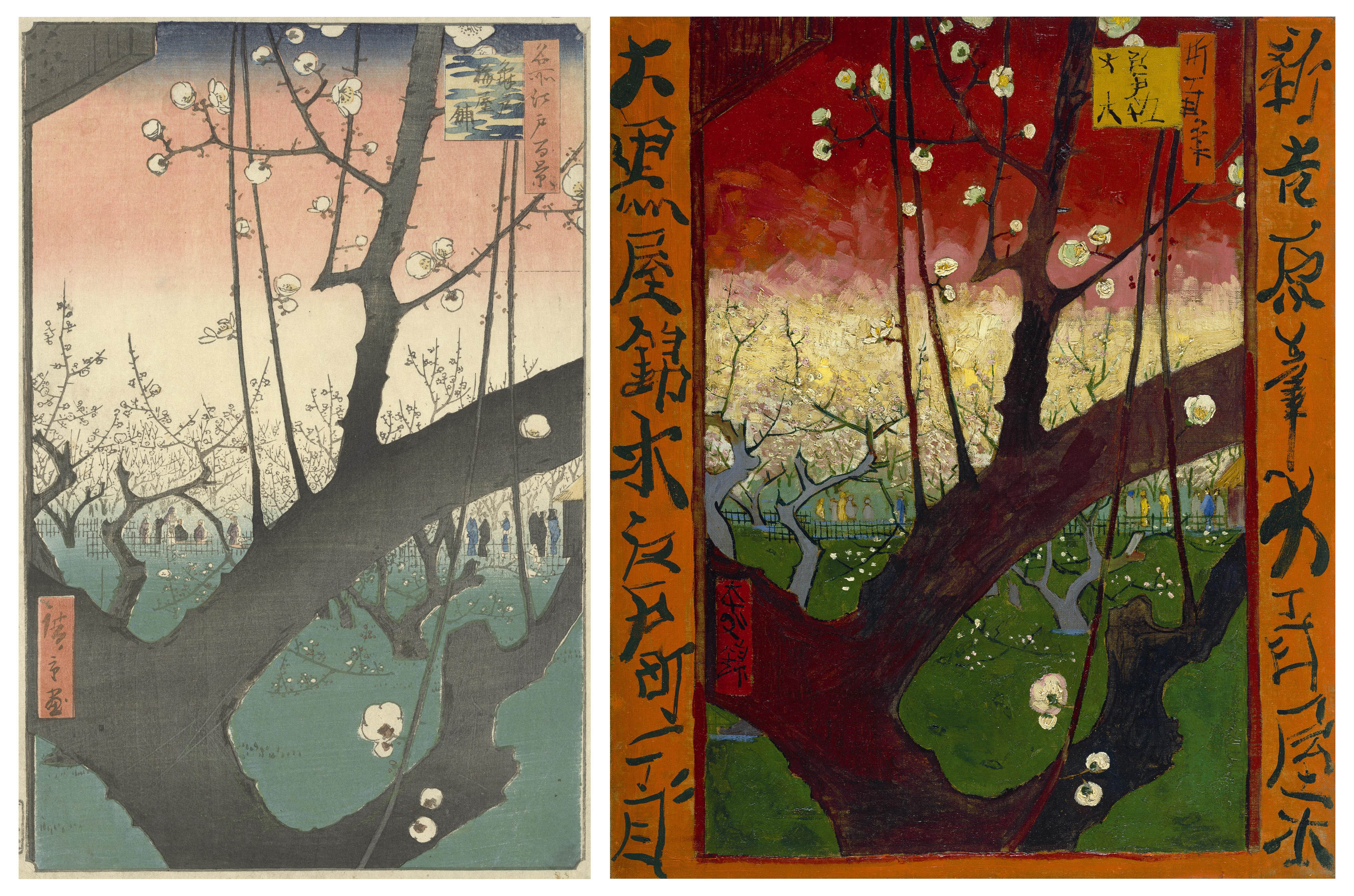 Comparison of a woodblock print by Hiroshige (left) to its copy painted by van Gogh. Left, Utagawa Hiroshige: The Residence with Plum Trees at Kameido ; Right, Vincent van Gogh: Japonaiserie, Flowering Plum Tree (after Hiroshige).